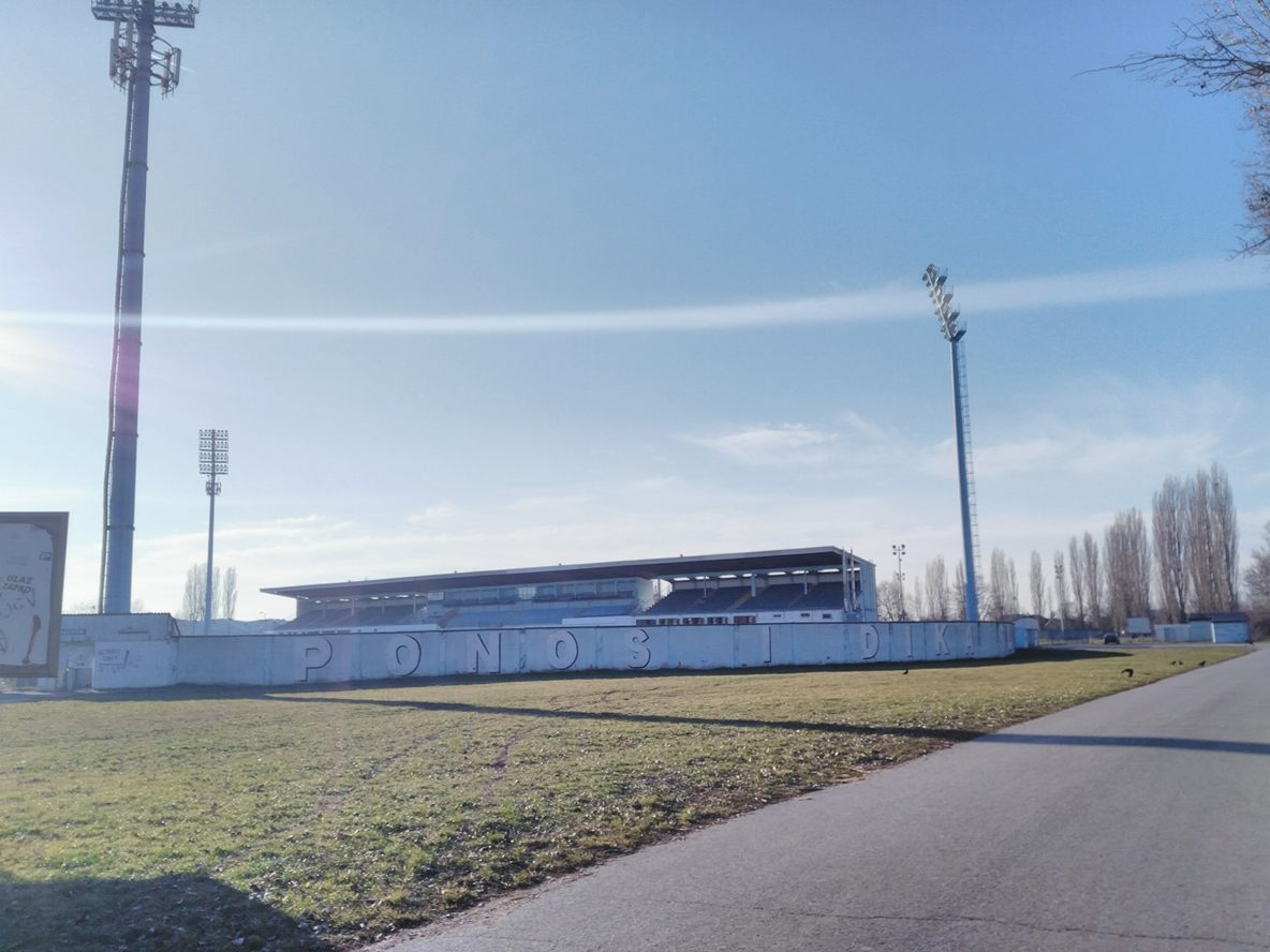 Football field in Vinkovci.